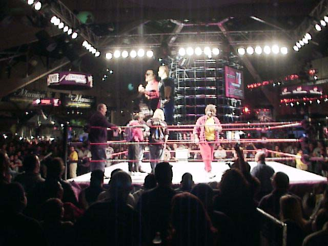 Mick Foley in WrestleMania X-Seven Fan Axxess